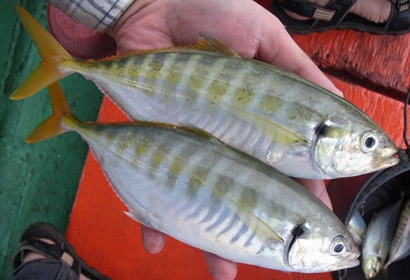 Yellowtail scad netted in Palau